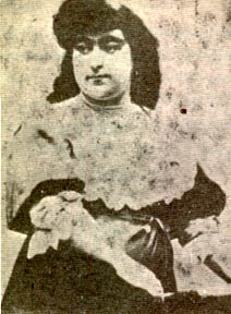 Taj-al-Saltaneh daughter of Nasser al-Din Shah Qajar